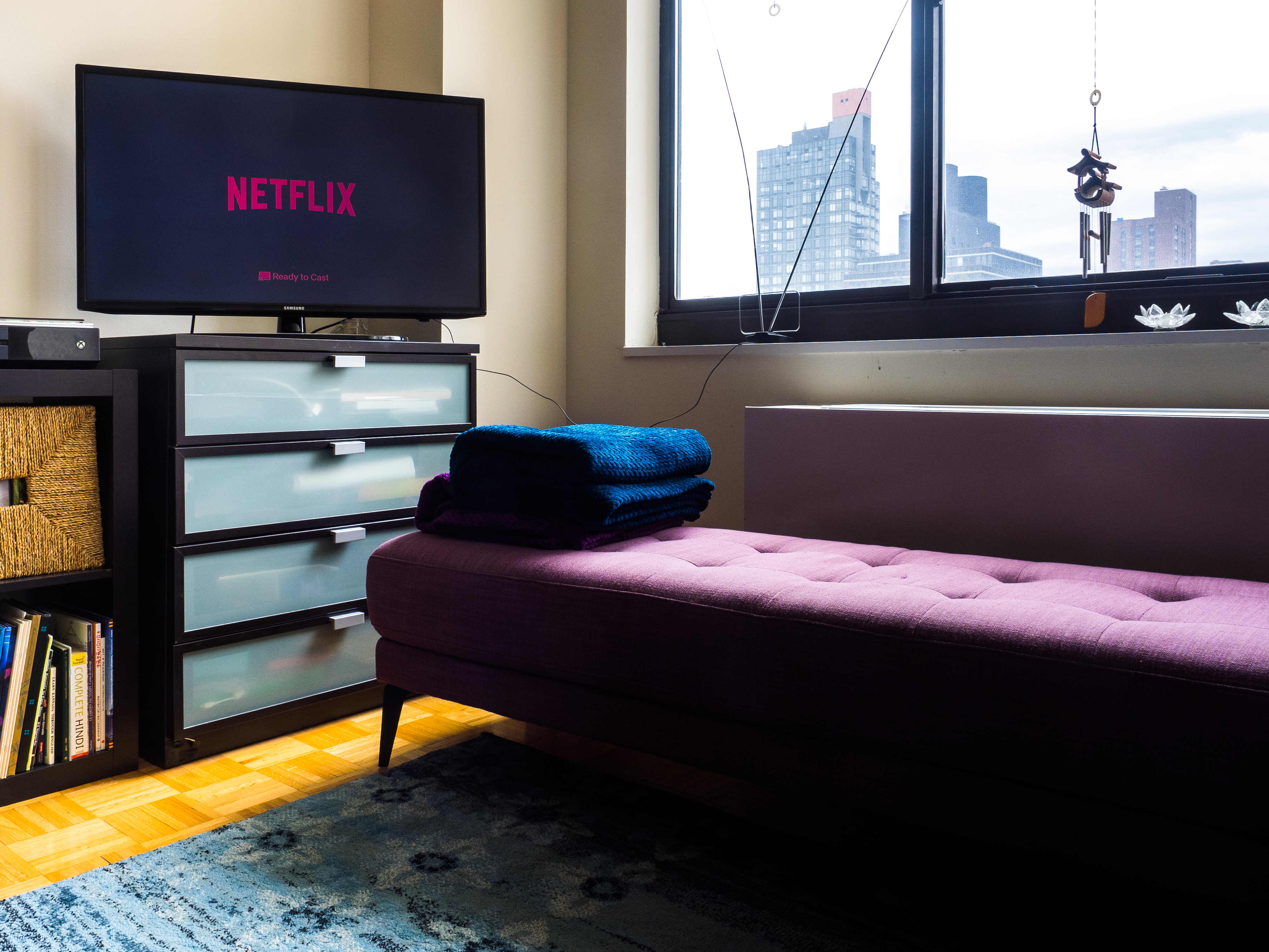 Netflix Streaming